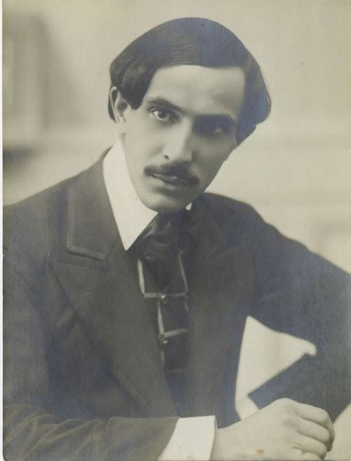 Marko Rašica, slovene painter.